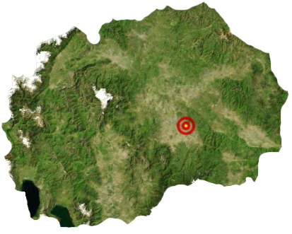 Location of Negotino town in the Republic of Macedonia